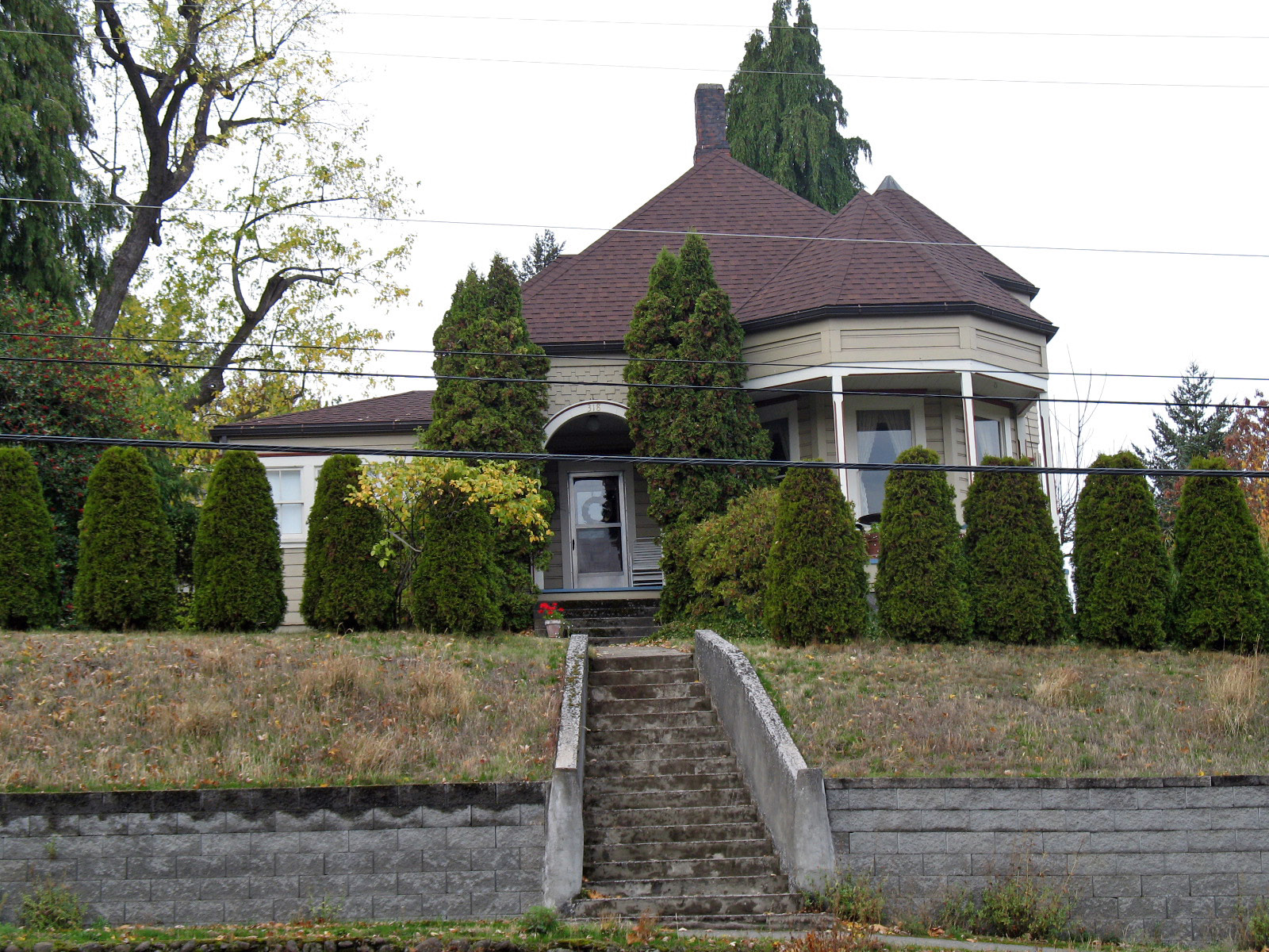 National Register of Historic Places listings in Hood River County, Oregon. Shaw-Dumble House, 318 9th St, Hood River, OR. Photographed October 28, 2009 from the southeast corner of 9th St. and Sherman Ave.